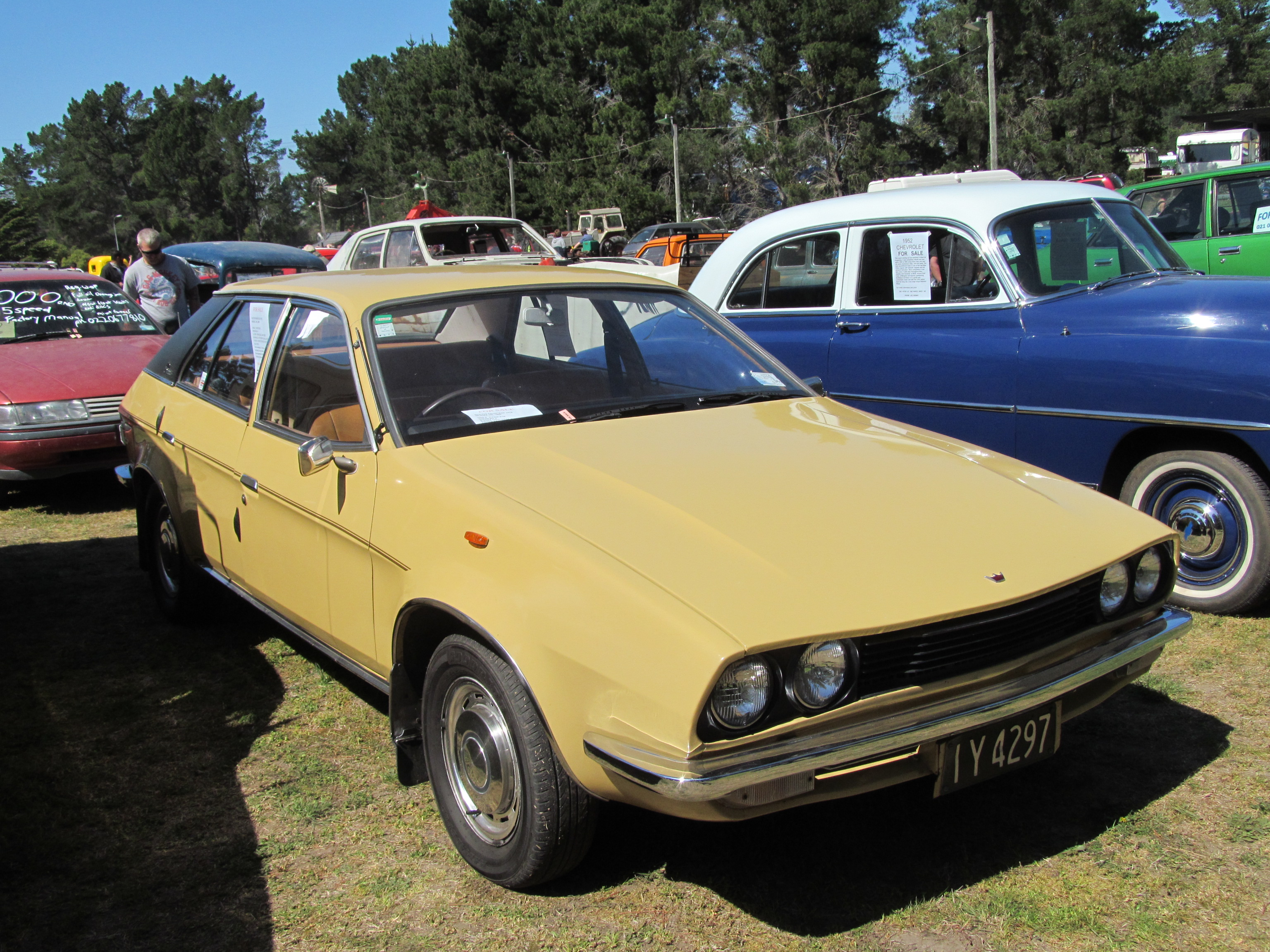 A beautiful example of an iconic BL car. According to Carjam it appears to have only done just over 100,000 kilometres.